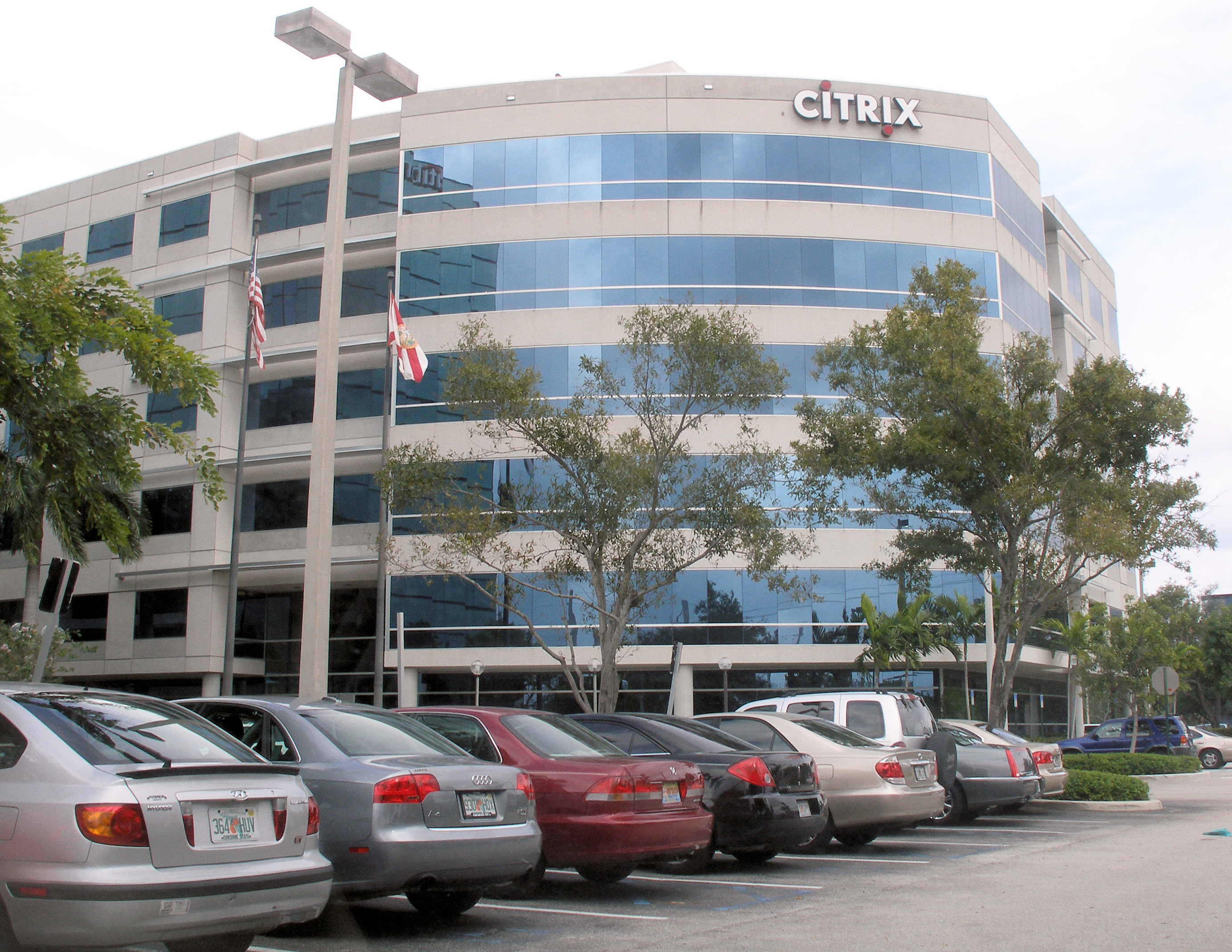 Citrix Systems headquarters in Fort Lauderdale.